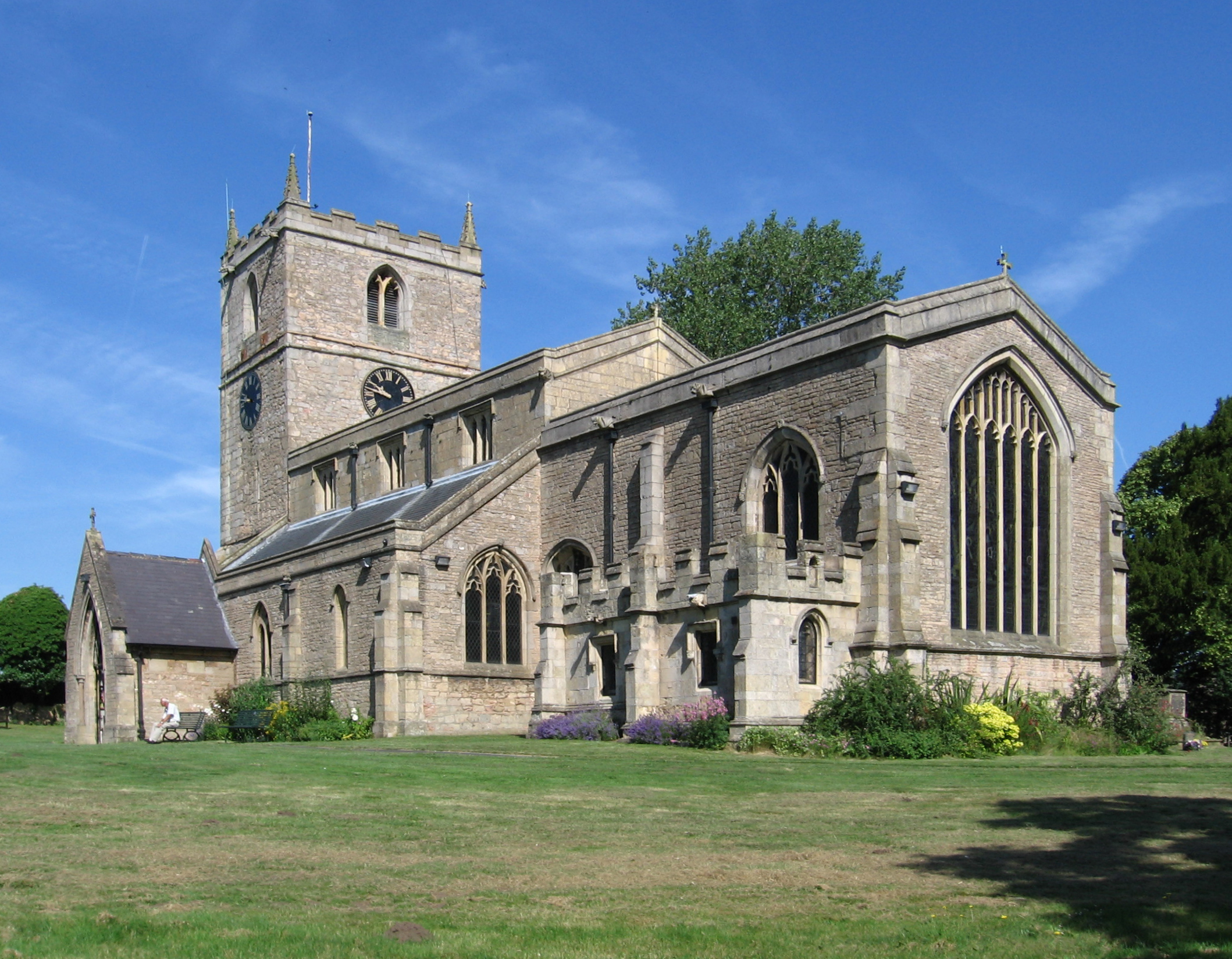 Parish church of SS Peter and Paul, Warsop, Nottinghamshire, seen from the southeast